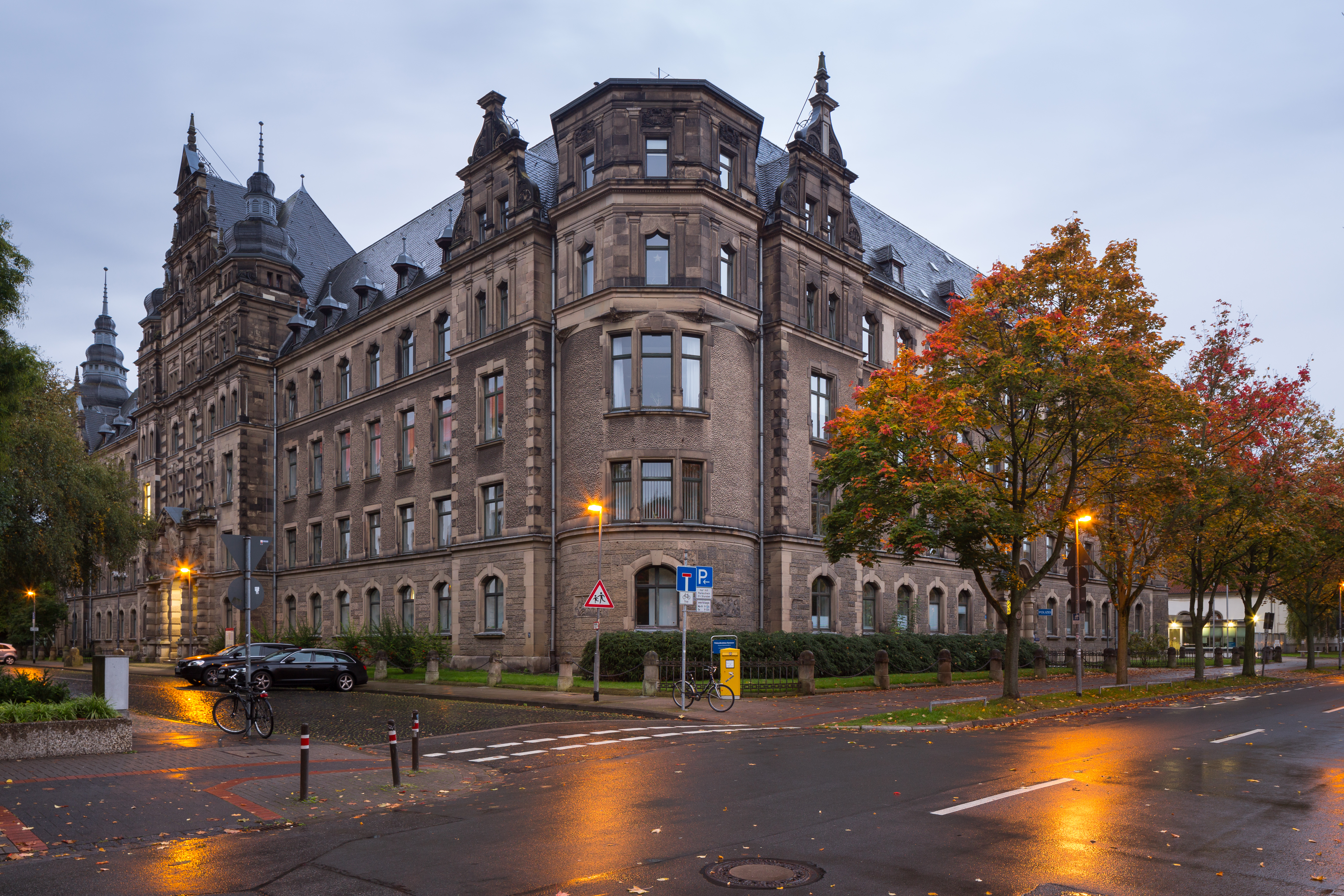 Police headquarters located at Waterloostrasse and Hardenbergstrasse in Calenberger Neustadt quarter of Hannover, Germany.